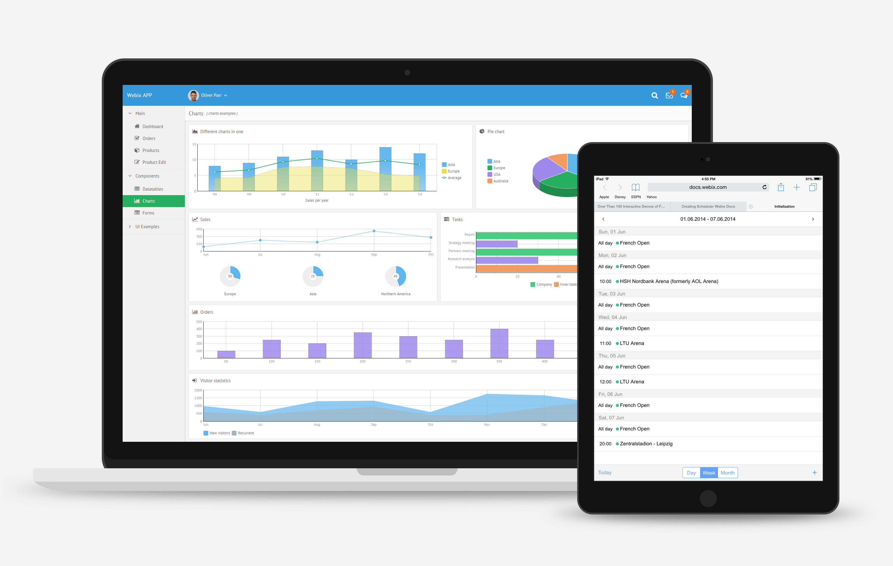 Webix provides a great number of JavaScript UI widgets with a pefect look and feel great on various devices. All of them can be effortlessly customized in accordance with your preferences thanks to the rich and clear API.